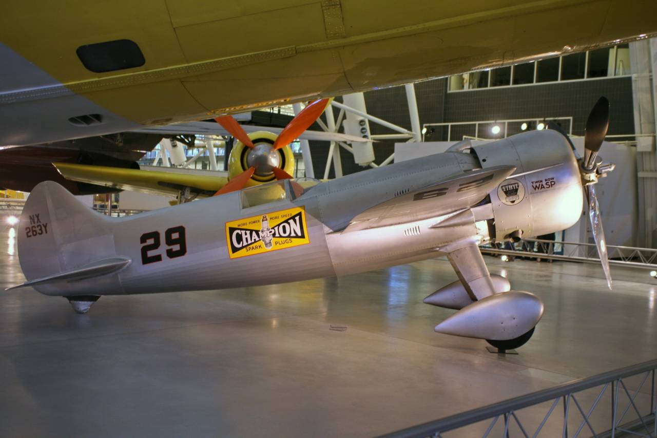 Following his first Thompson Trophy victory in 1934, famed racing pilot Roscoe Turner contracted with the Lawrence W. Brown Aircraft Company to build a new racing aircraft. Designed by Turner and engineered by University of Minnesota professor Howard Barlow, the Turner racer was completed in mid-1936. Following flight tests, Matty Laird extensively redesigned the aircraft and added a larger wing and flaps. Known as the Laird Turner LTR-14 and later the Turner RT-14, the modified racer placed third in the 1937 Thompson Trophy event at the National Air Races and won the 1938 and 1939 contests. With this aircraft, Turner became the only three-time winner of the Thompson Trophy. In 1939 the aircraft was sponsored by Champion Spark Plugs and therefore carried the name "Miss Champion" on its fuselage.